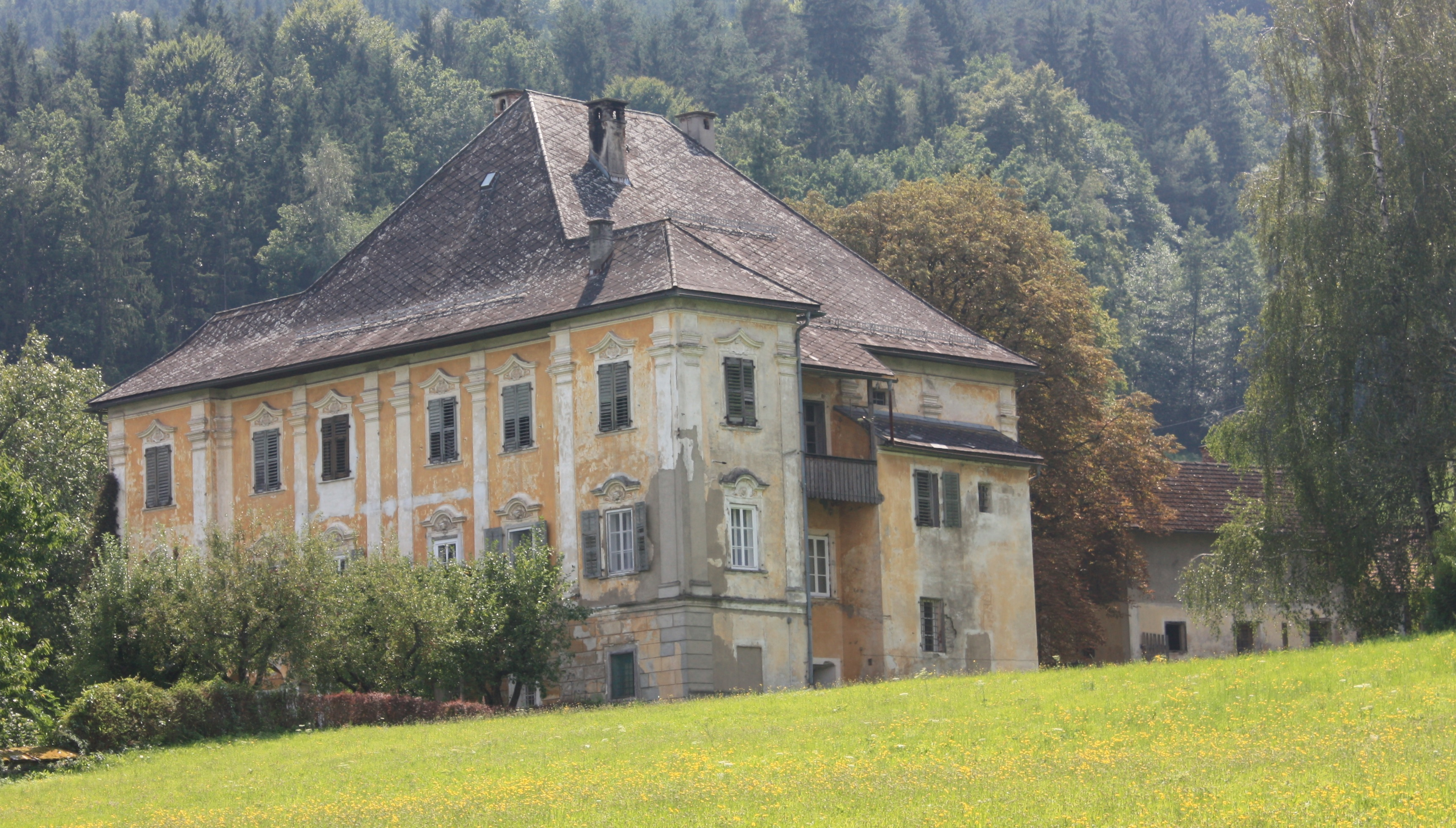 Eberwein castle Locality: Leifling Community:Neuhaus